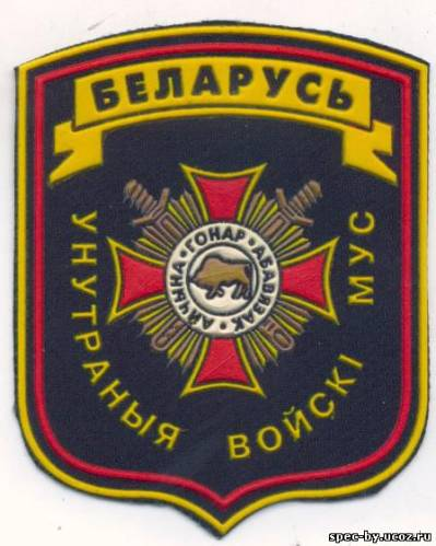 Patch of the Troops of the Belarusian Ministry of the Interior